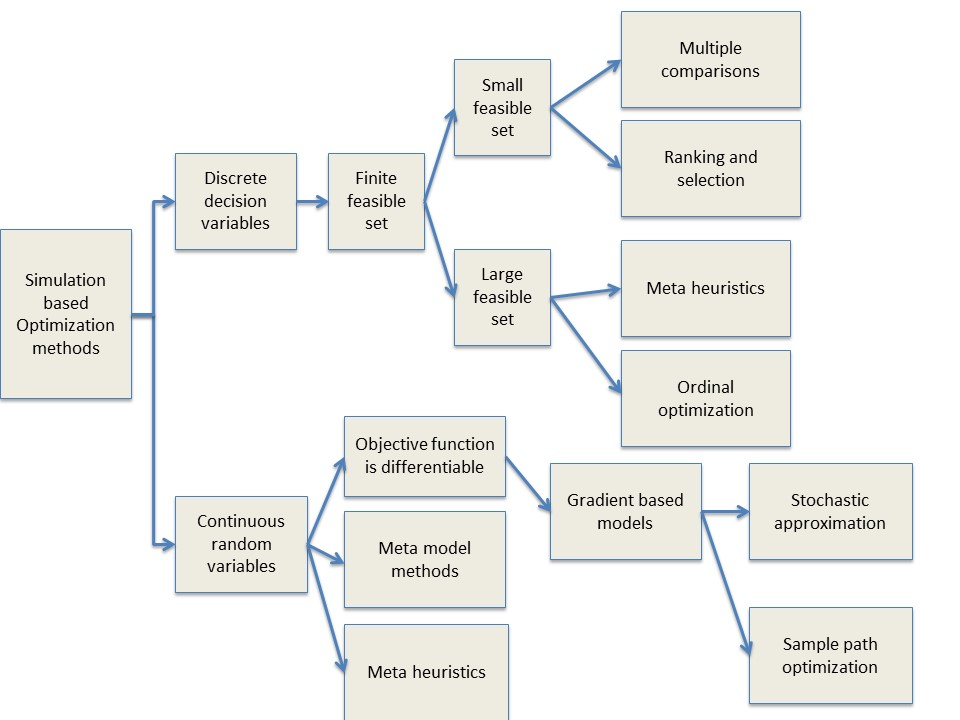 figure based on the paper 2.